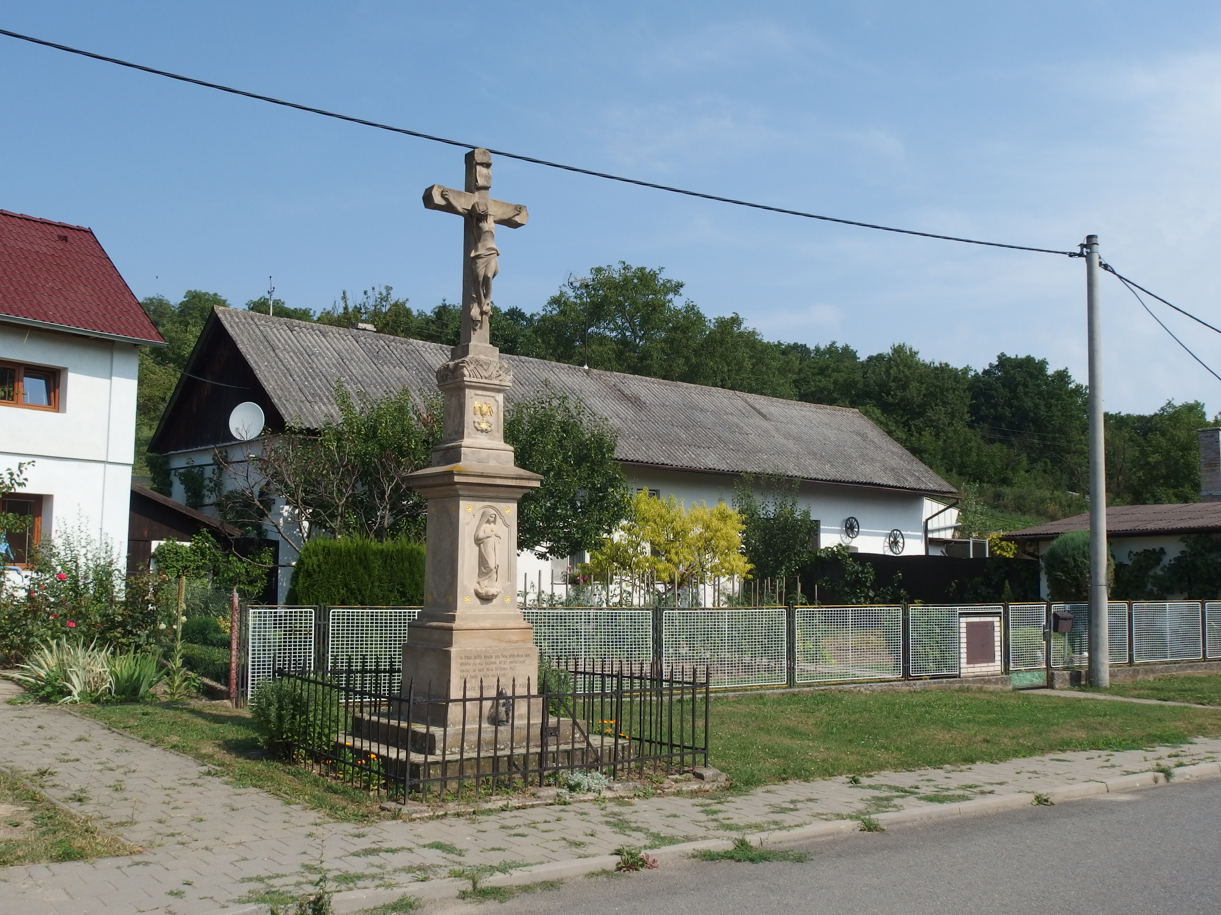 Kroměříž, Czech Republic, part Zlámanka.